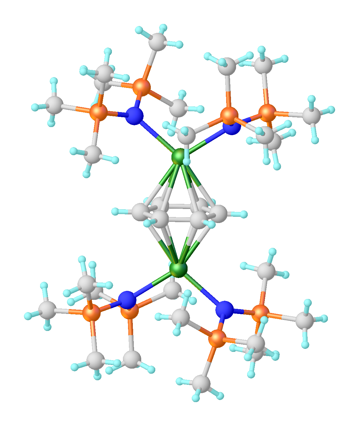 Structure of U2(Ntms2)4C6H6 from doi 10.1038/nchem.1392